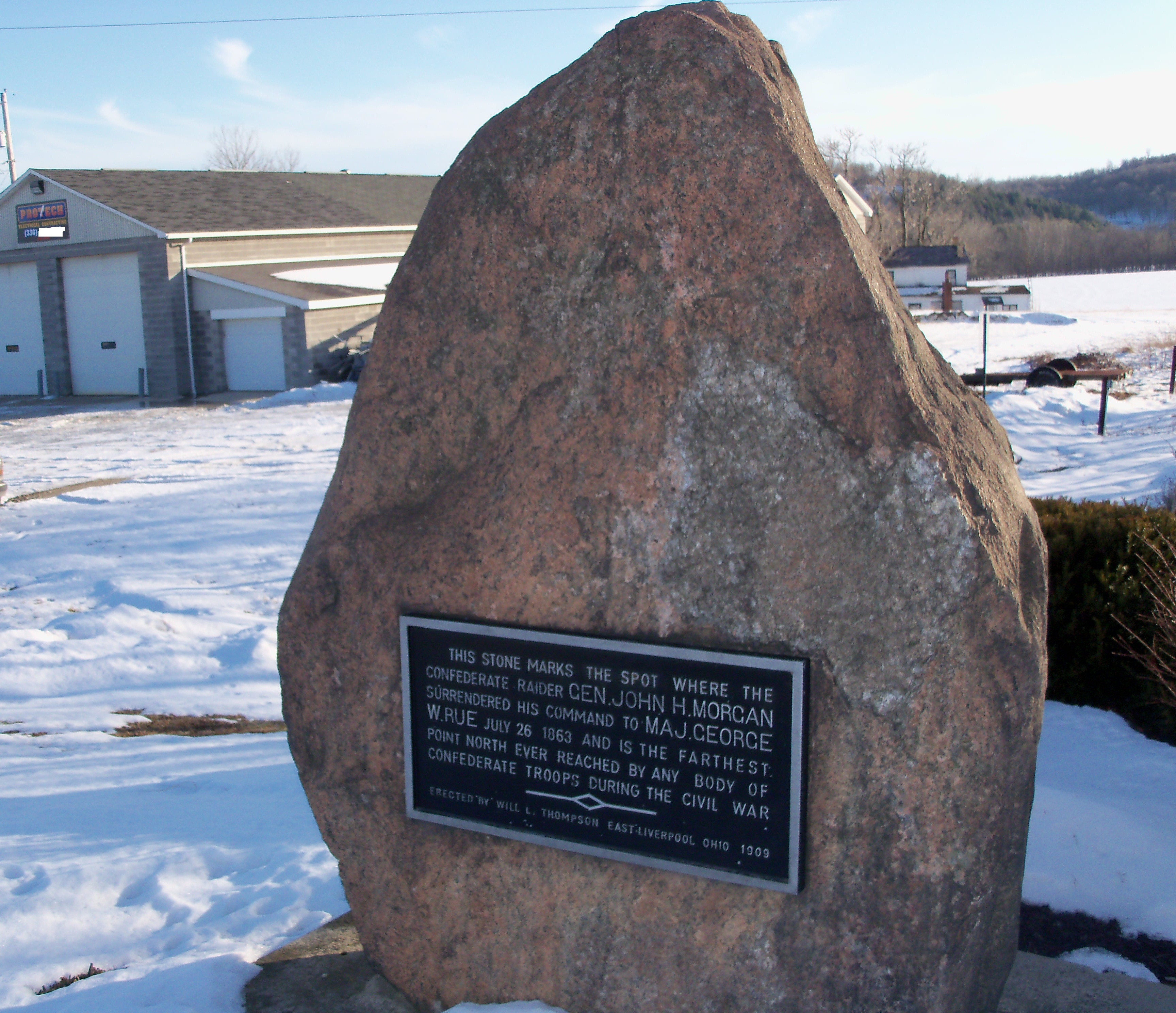 Monument next to parking lot of 'Protech Electrical Contractor' on Ohio State Route 518 east of West Point, Ohio. John Hunt Morgan surrendered here.